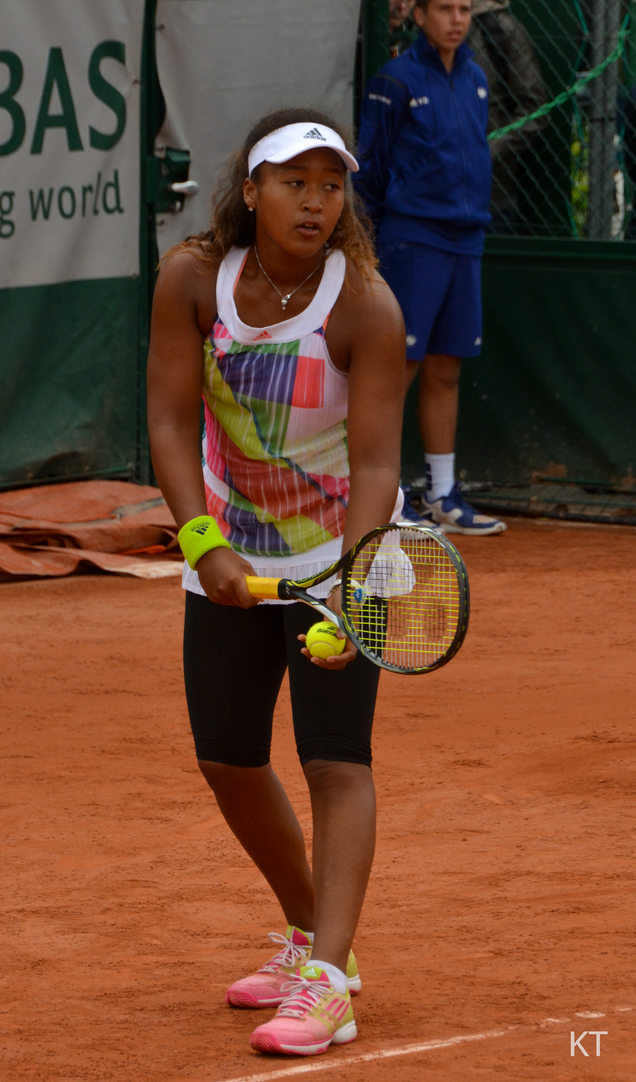 Day 2 of Roland Garros 2016.